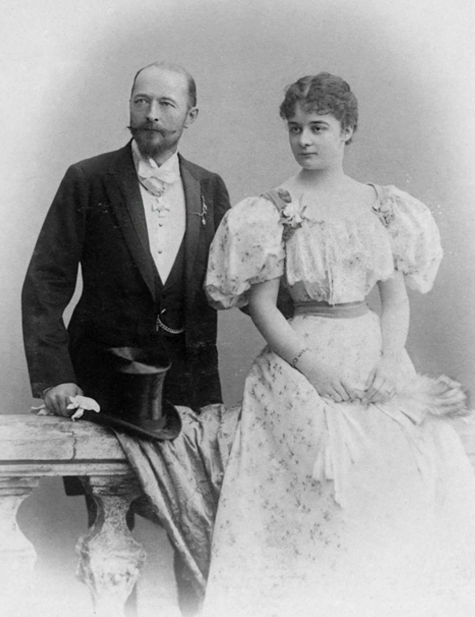 Emil Behring (1854-1917) and his wife Else Spinola (1876–1936). Wedding picture 1896 in Berlin.